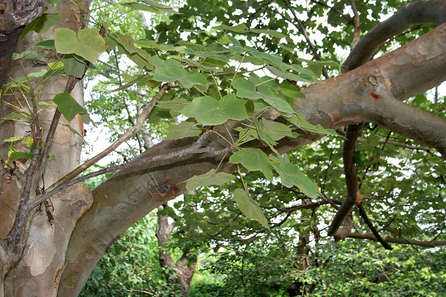 Sterculia urens- The Ghost Tree, Gulu, Kadaya, Karaya, Indian-tragacanth, gum karaya, Indian gum tragacanth • Hindi: Kulu कुलु • Kannada: Kurdu • Konkani: Pandruk • Tamil: Kavalam Tam • Malayalam: Paravakka • Telugu: Kavili • Marathi: Sardol • Rajasthani: Katila • Assamese: Odla • Gujarati: Kogdol • Oriya: Gudalo- in Keesara, Rangareddy district, Andhra Pradesh, India.